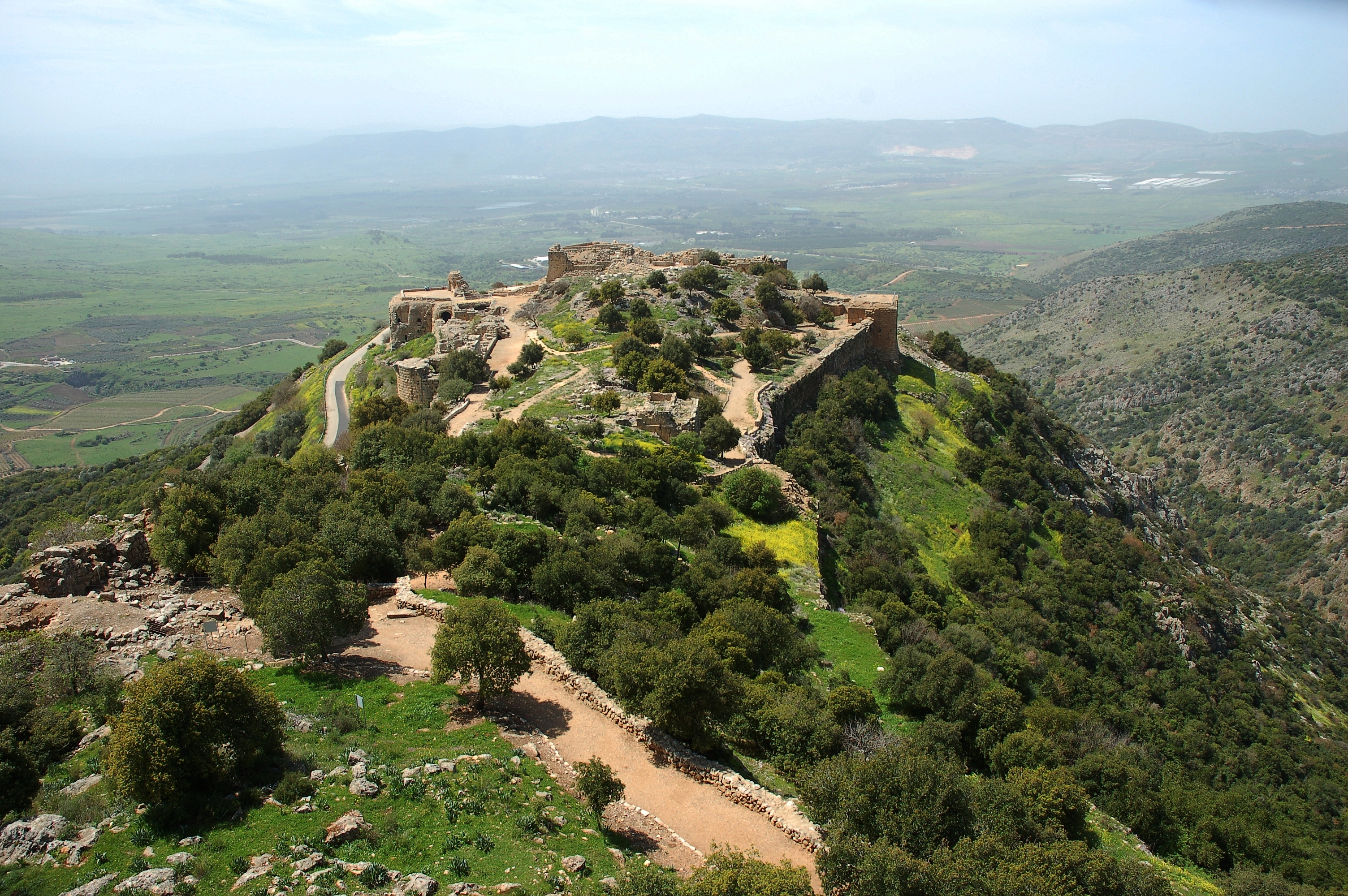 Nimrod Fortress ????? ?????